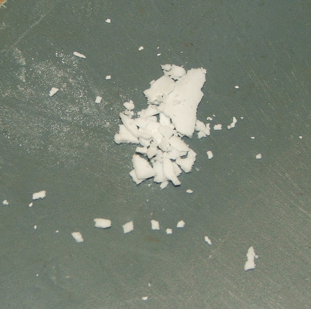 Dicalcium phosphate